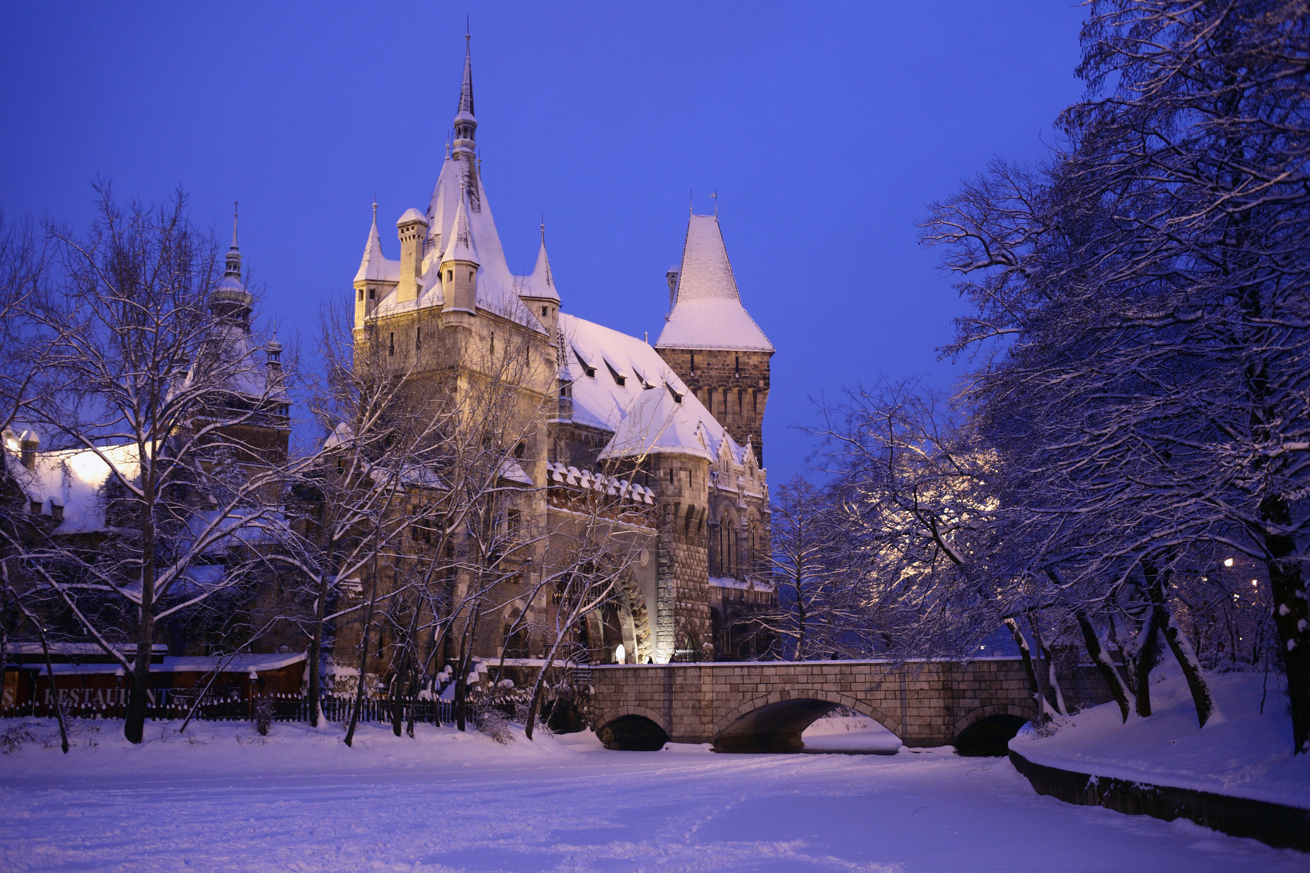 Vajdahunyad Castle, in City Park, Budapest, Hungary. (Ignác Alpár, 1896.)